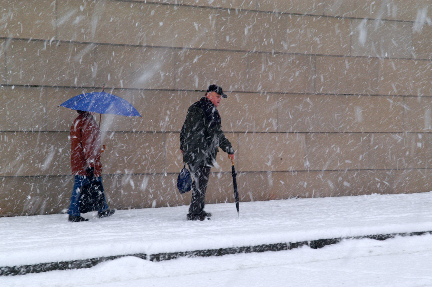 Snow flurry in front of a Synagogue in Dresden.